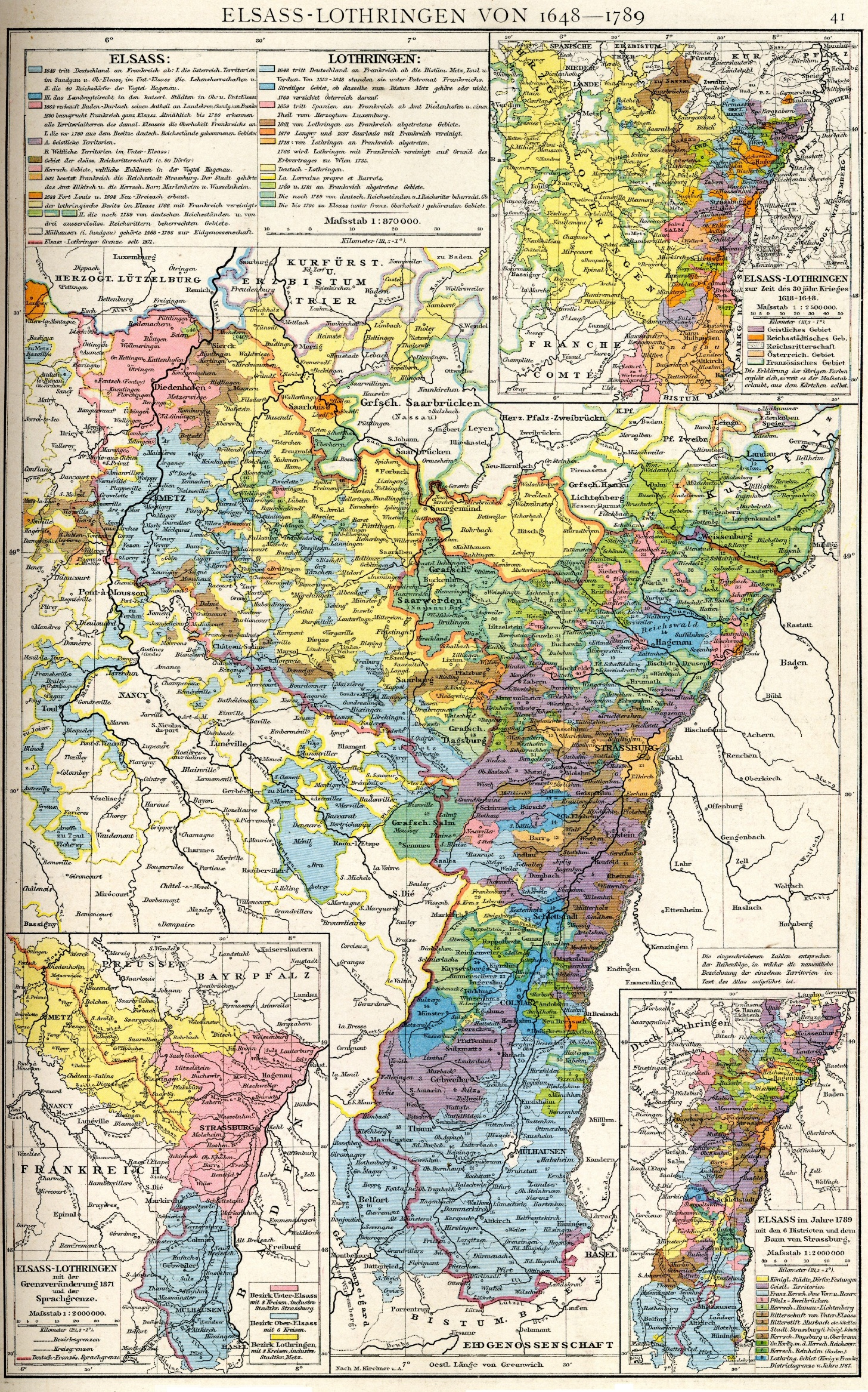 Alsace-Lorraine from 1648 to 1789